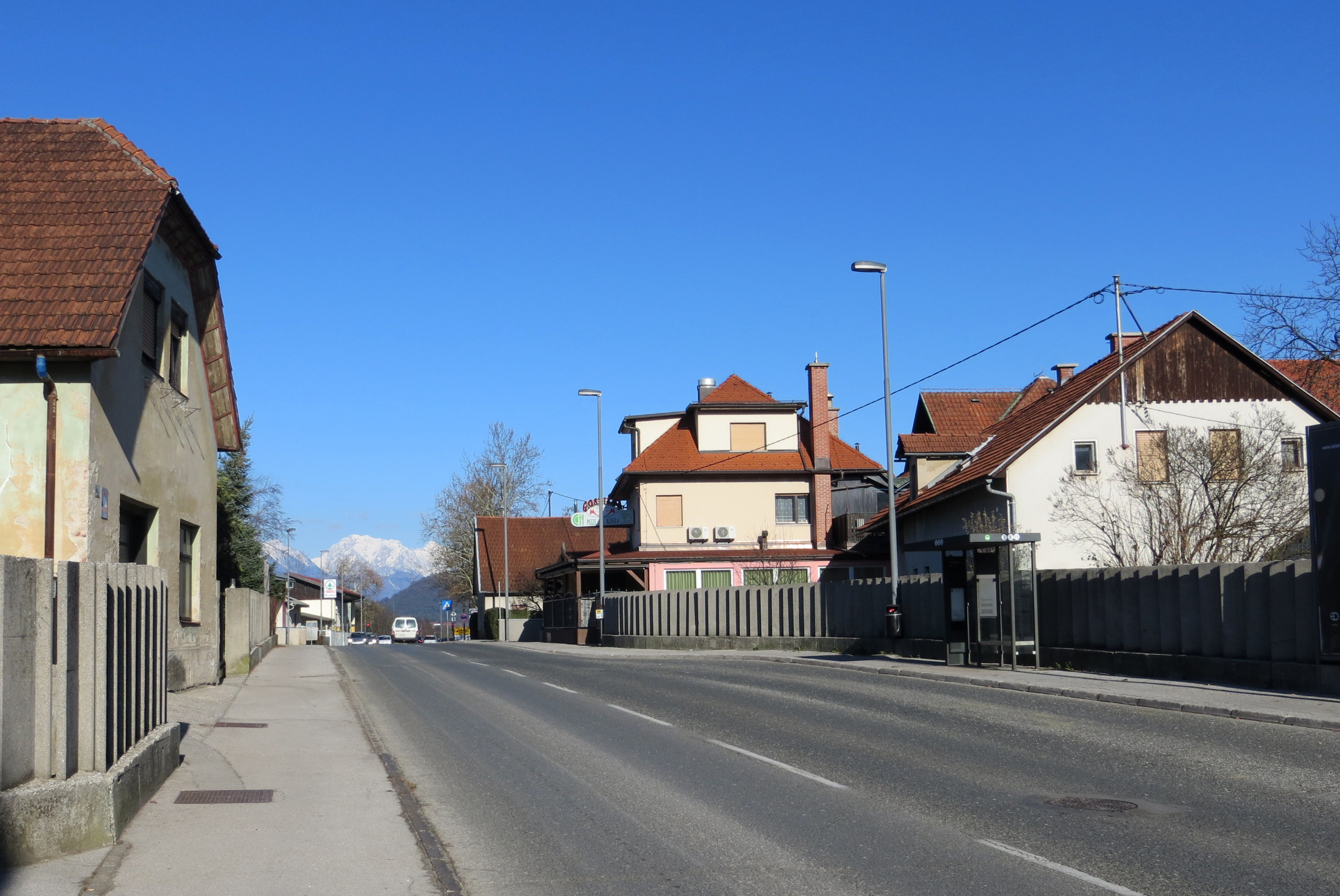 The former village of Vižmarje, Municipality of Ljubljana, Slovenia